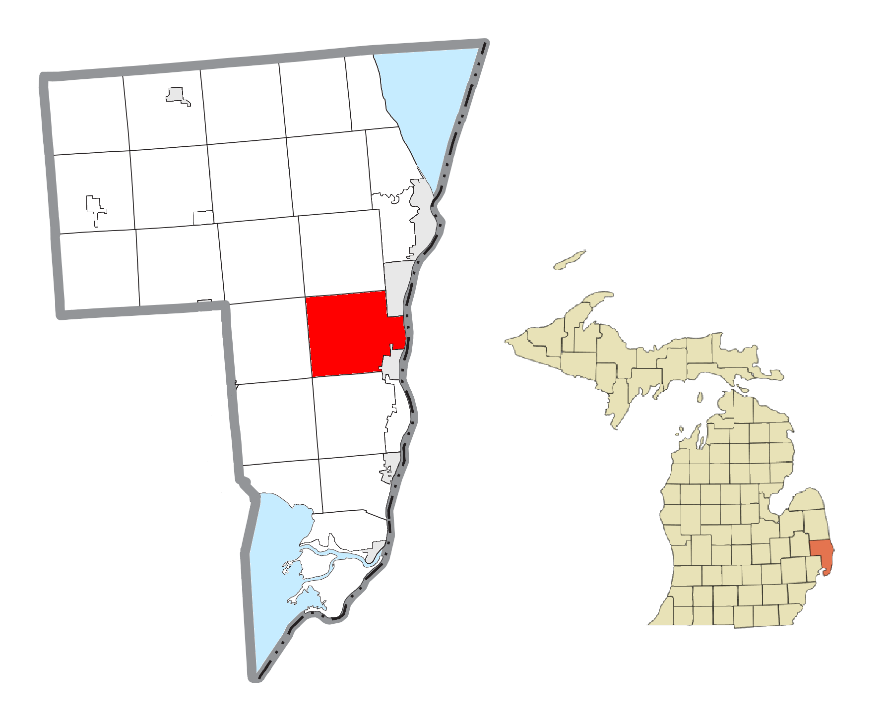 St. Clair Township, MI